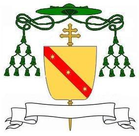 Coat of arms of Guidantonio Arcimboldi, Ottaviano Arcimboldi and Giovannangelo Arcimboldi, Archibishops of Milan